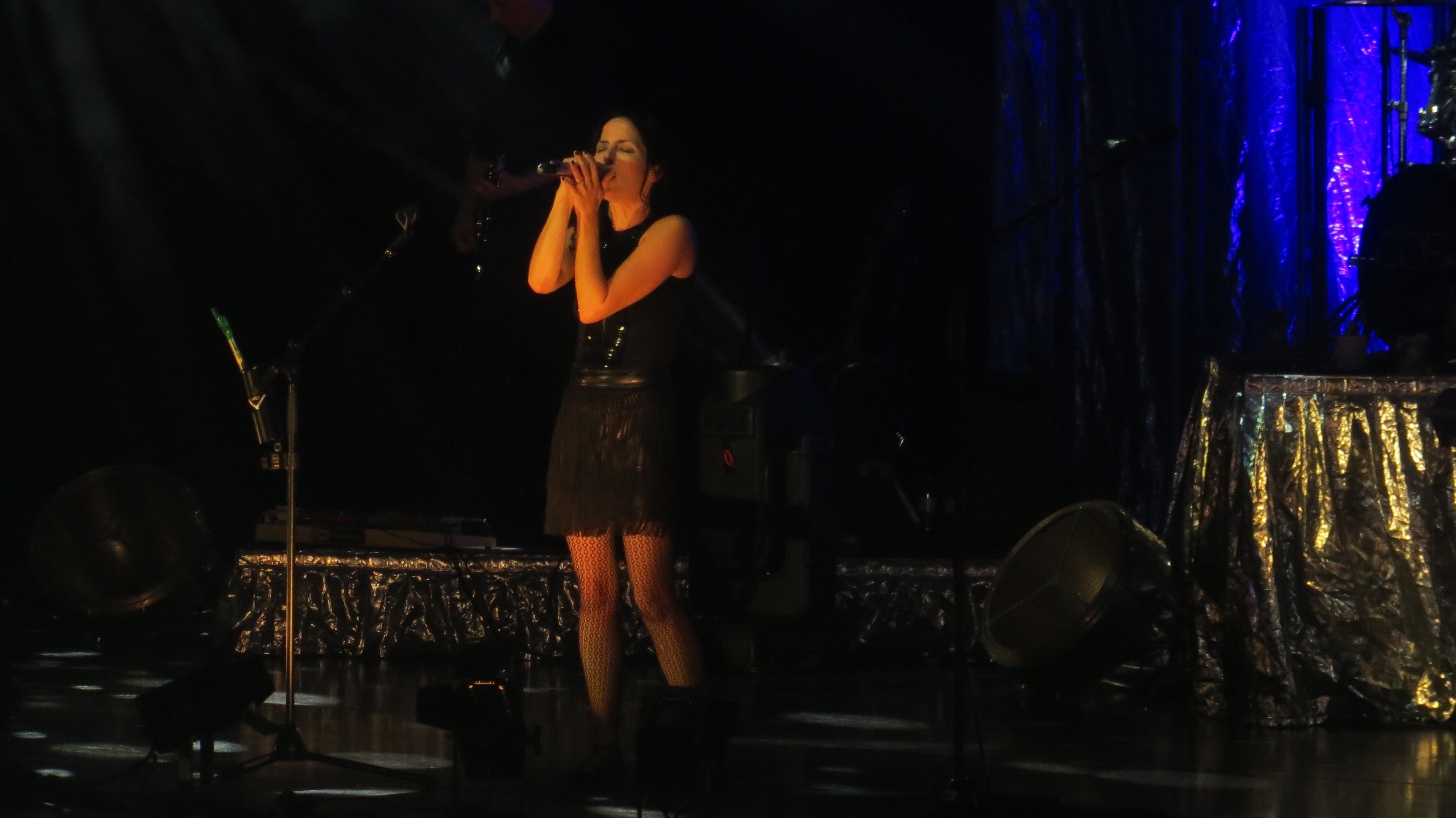 Andrea Corr in Vienna (Stadthalle, 2016)